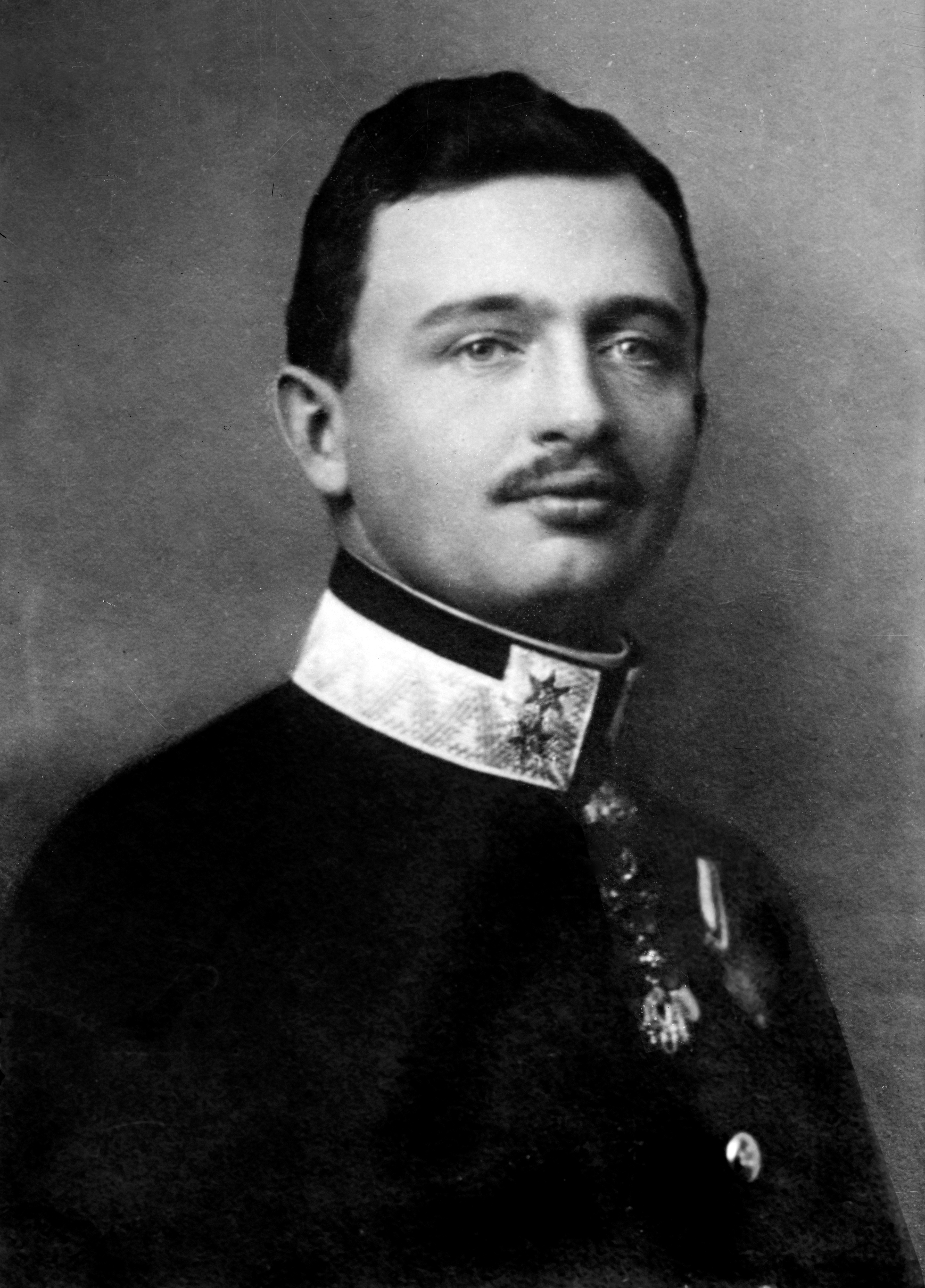 Grand Duke Charles of Austria, the later Emperor Charles I of Austria (R 1916-1918)